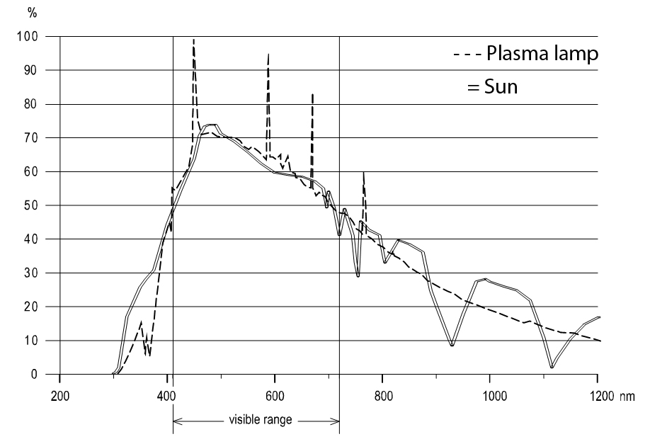 Spectral mismatch - sun vs plasma lamp